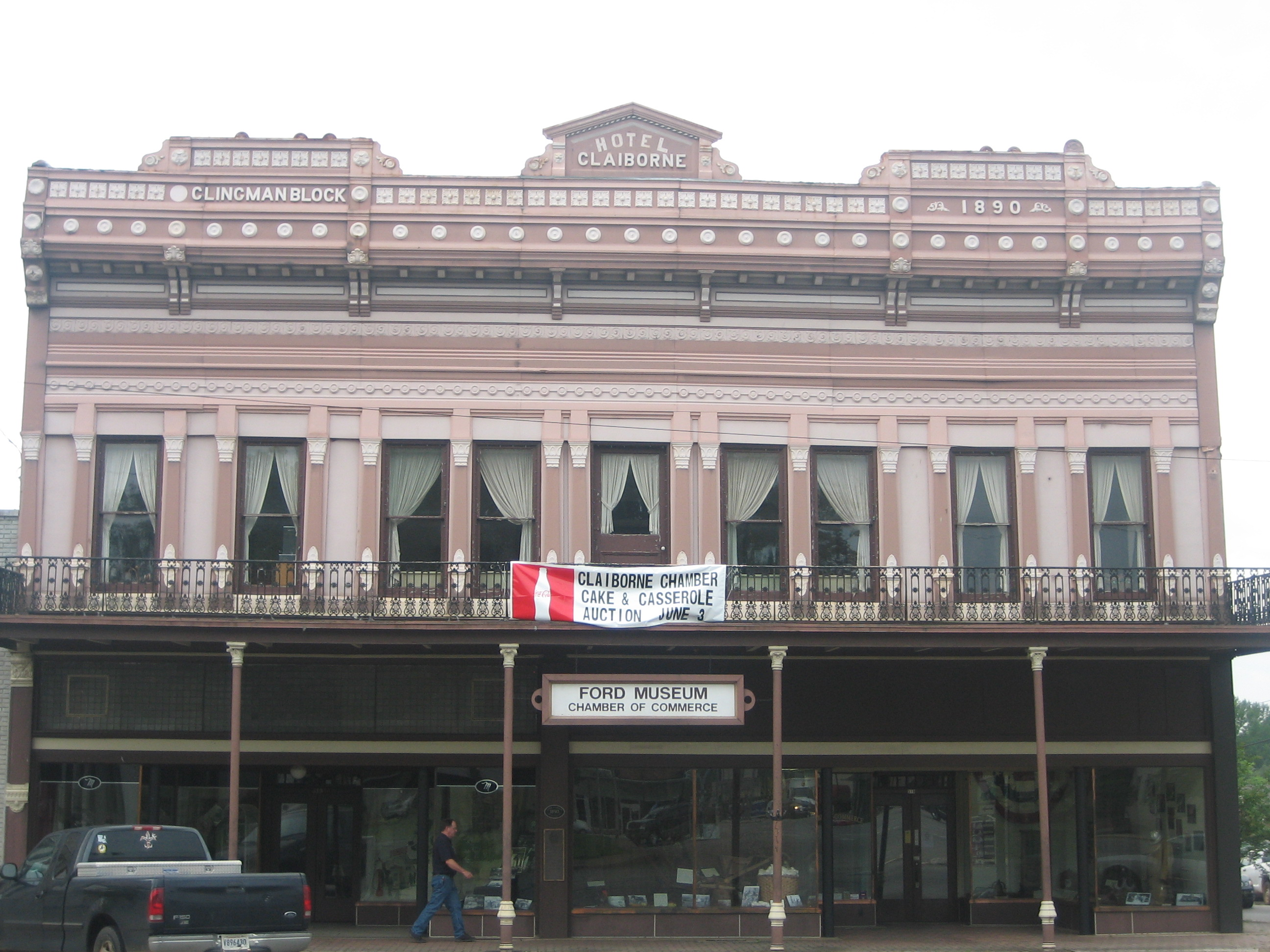 HOW ABOUT SOME INFORMATION HERE?